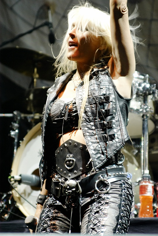 Doro Pesch @ Classic Rock Festival Hamburg